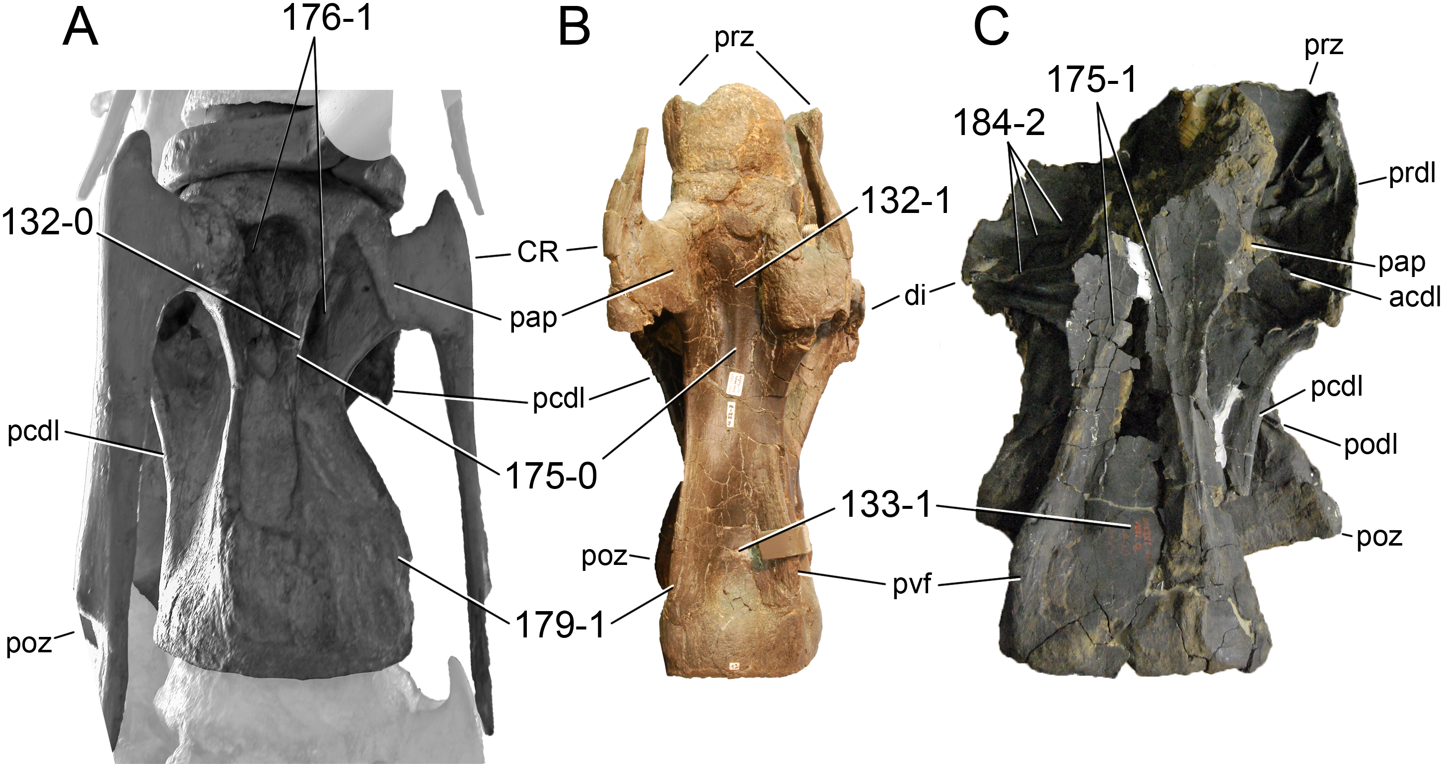 Flagellicaudatan mid- to posterior cervical vertebrae. Mid- to posterior cervical vertebrae of Dicraeosaurus hansemanni MB.R.4886 (A; photo by J Harris), Kaatedocus siberi SMA 0004 (B), and Barosaurus lentus YPM 429 (C) in ventral view (anterior to the top). Note the different developments of the ventral keels (prominent in Dicraeosaurus, A, C132-0; shallow, single in Kaatedocus, B, C132-1 and 175-0; double in Barosaurus, C, C175-1), the ventral sulcus typical for diplodocines (B, C; C133-1), the pneumatic foramina accompanying the ventral keel in Dicraeosaurus (A; C176-1), the posteroventral flanges (C179-1), and the numerous accessory laminae subdividing the prezygapophyseal centrodiapophyseal fossa in Barosaurus (C; C184-2). Vertebrae scaled to same centrum length. Abb: acdl, anterior centrodiapophyseal lamina; CR, cervical rib; di, diapophysis; pap, parapophysis; pcdl, posterior centrodiapophyseal lamina; podl, postzygodiapophyseal lamina; poz, postzygapophysis, prdl, prezygodiapophyseal lamina; prz, prezygapophysis; pvf, posteroventral flange.